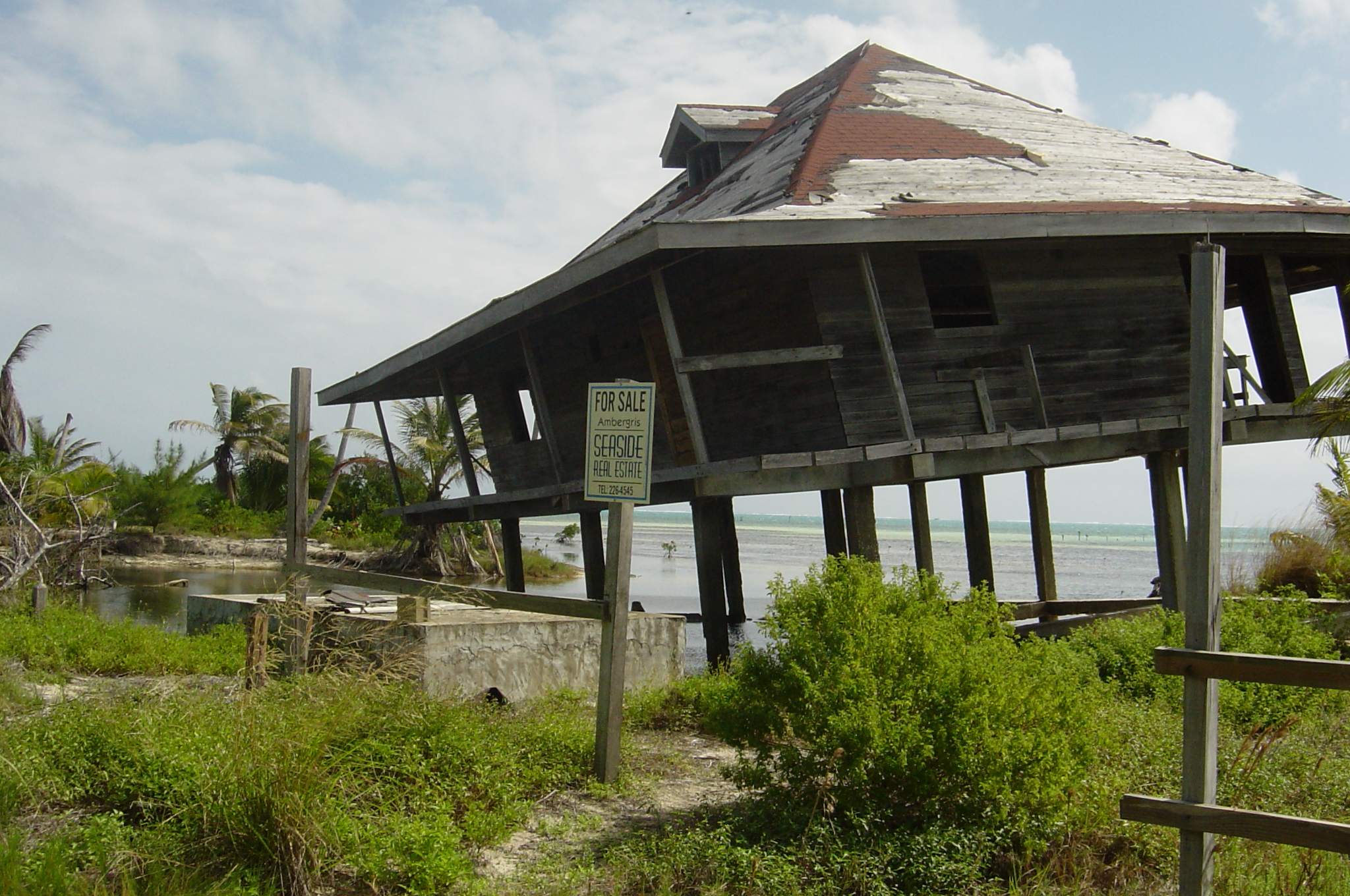 A house for sale in San Pedro, Belize. Supporting soil was undercut by a hurricane and/or wave action.